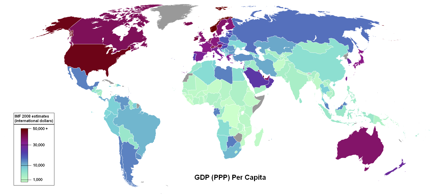 GDP (PPP) Per Capita based on 2008 [IMF estimates